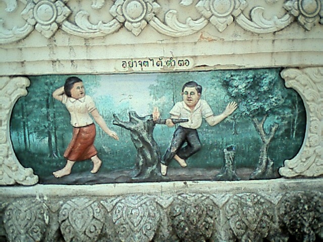 อย่าจุดไต้ตำตอ -- Illustrated Proverb: Don't torch a stump with hornet nest